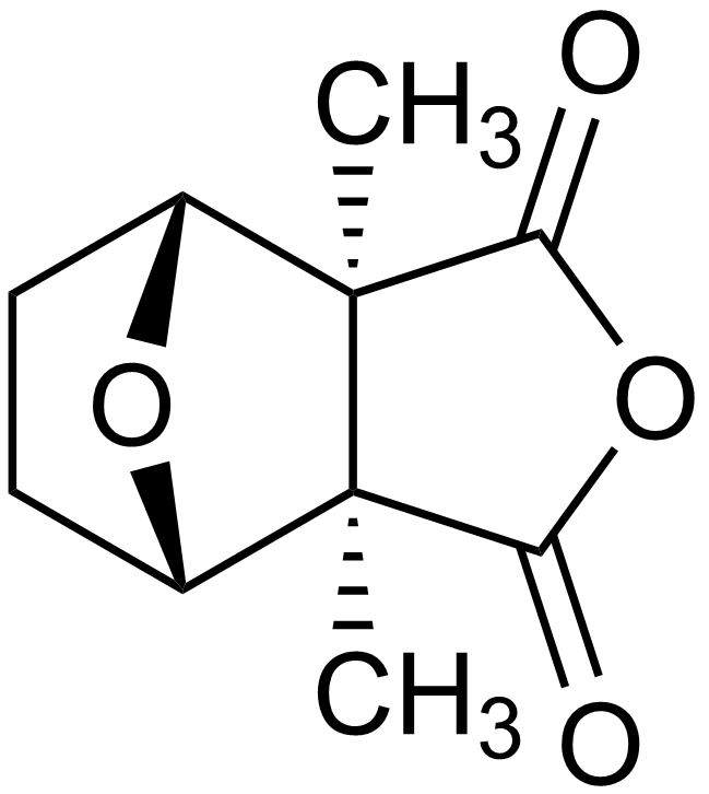 chemical structur eof cantharidin